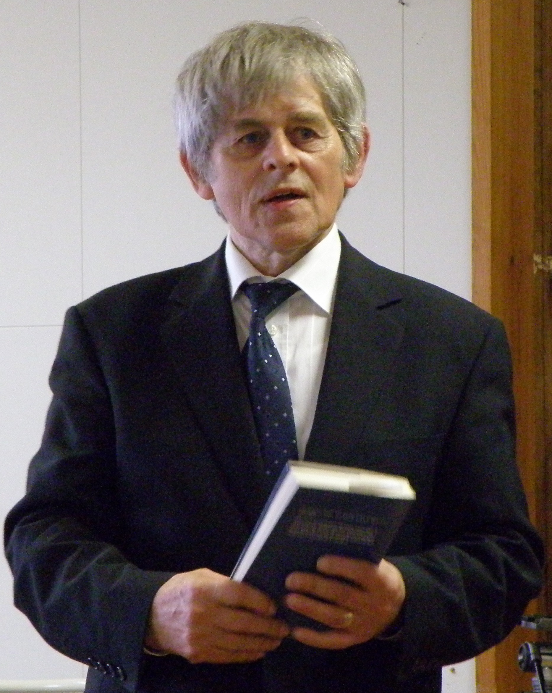 Steinbjørn Berghamar Jacobsen (known as Steinbjørn B. Jacobsen) is a Faroese writer. He was born in Sandvík in 1937. He has written different kind of literature, poems, theater plays, novels, short stories, stories for children and memoirs. This photo was taken in Sandvík in May 2011 when he published his third book in a trilogy of memoirs from Sandvík. The book is called "Grund 3". Update 13 April 2012: Steinbjørn B. Jacobsen died yesterday on 12 April 2012, 74 years old. Føroyskt: Steinbjørn B. Jacobsen er føroyskur rithøvundur, føddur í Sandvík í 1937. Hann hevur skrivað nógv ymiskt, t.d. yrkingar, skaldsøgur, stuttsøgur, sjónleikir og endurminningar. Henda myndin varð tikin í Ranhøll í Sandvík til samkomu sum varð hildin har, tá triðja endurminningar bókin Grund 3 kom út. Dagføring apríl 2012: Steinbjørn Berghamar Jacobsen andaðist hin 12. apríl 2012.